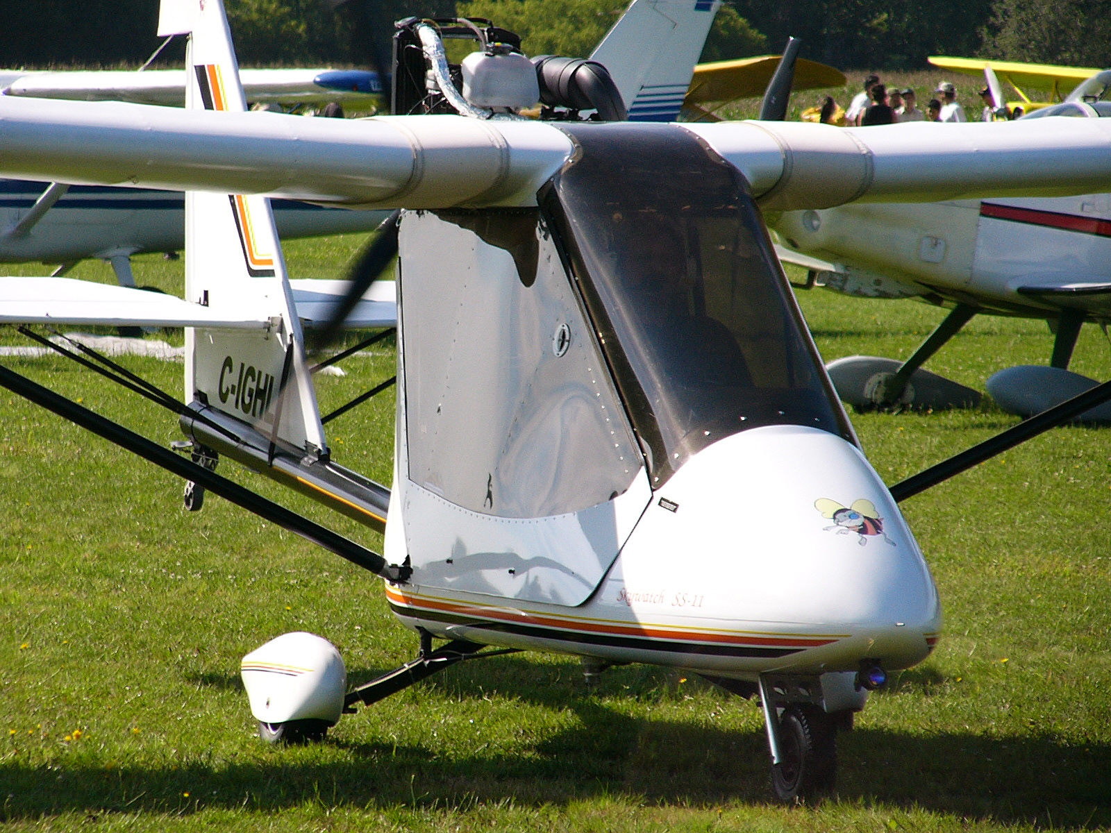 Freedom Lite Skywatch SS-11 at the Alexandria, Ontario, Canada Fly-in